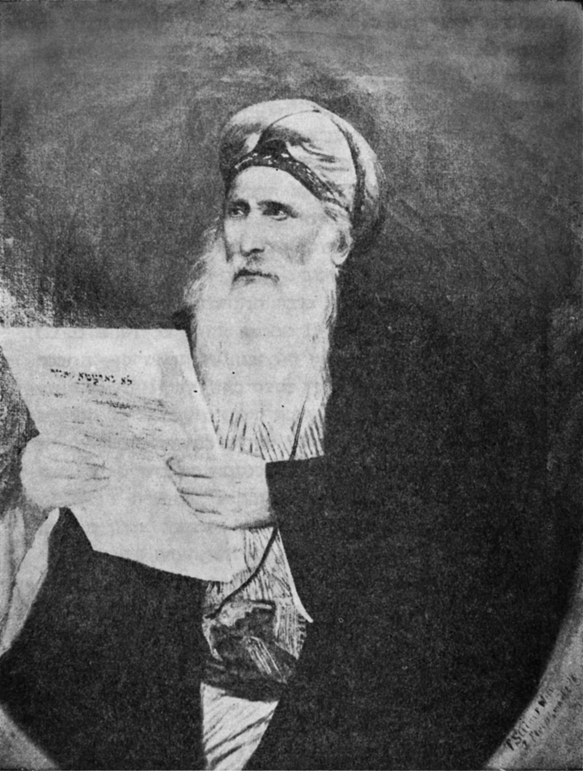 Raphael Meir Panigel, chief rabbi of Jerusalem (1880–1892)